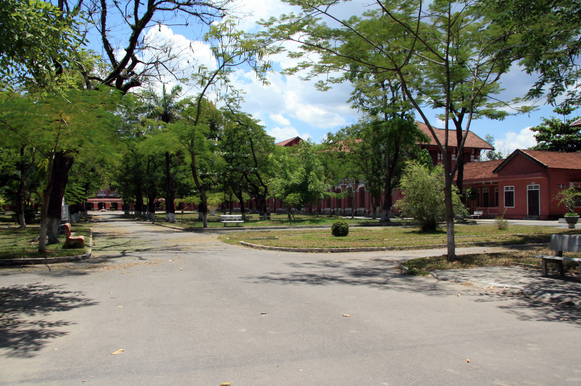 Nhà truyền thống và dãy phòng học phía Tây của trường Hai Bà Trưng, Huế